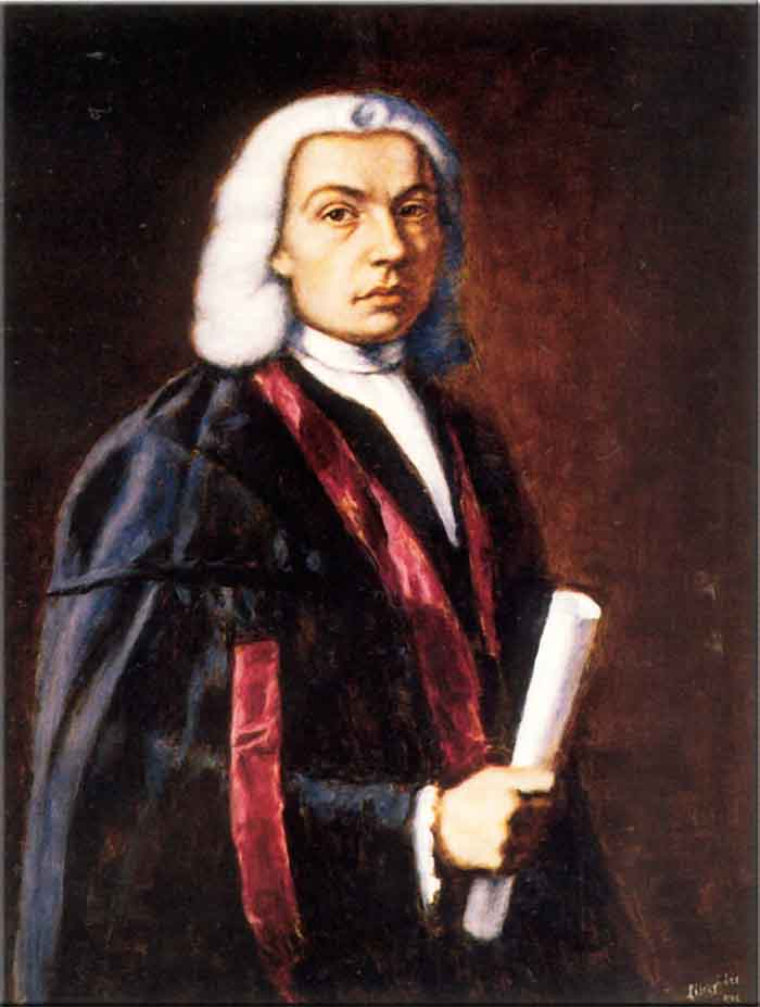 György Maróthi, professor of Reformed College of Debrecen, founder of Kántus.